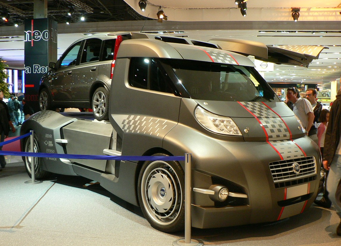 Fiat Iroc truck at the 2006 Paris Motor Show.